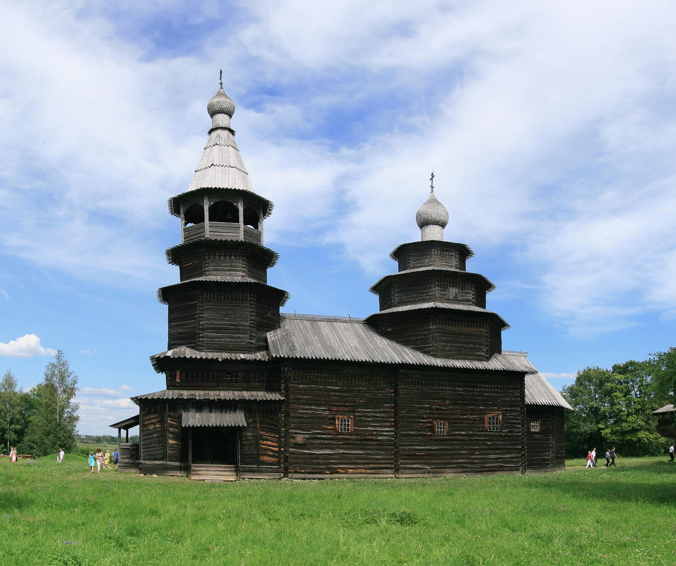 Saint Nicholas Church from village Vysoky Ostrov, 1767, Vitoslavlitsy museum, Veliky Novgorod